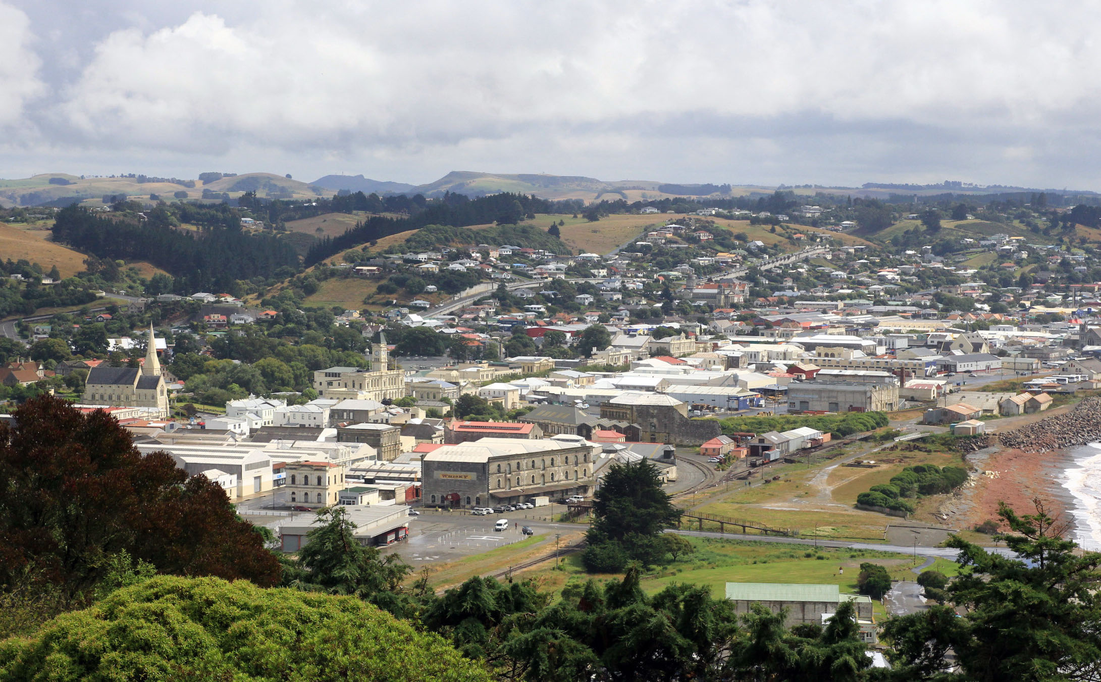 Overlooking Oamaru from S Hill Walk